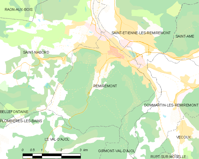 Map of French municipality Remiremont